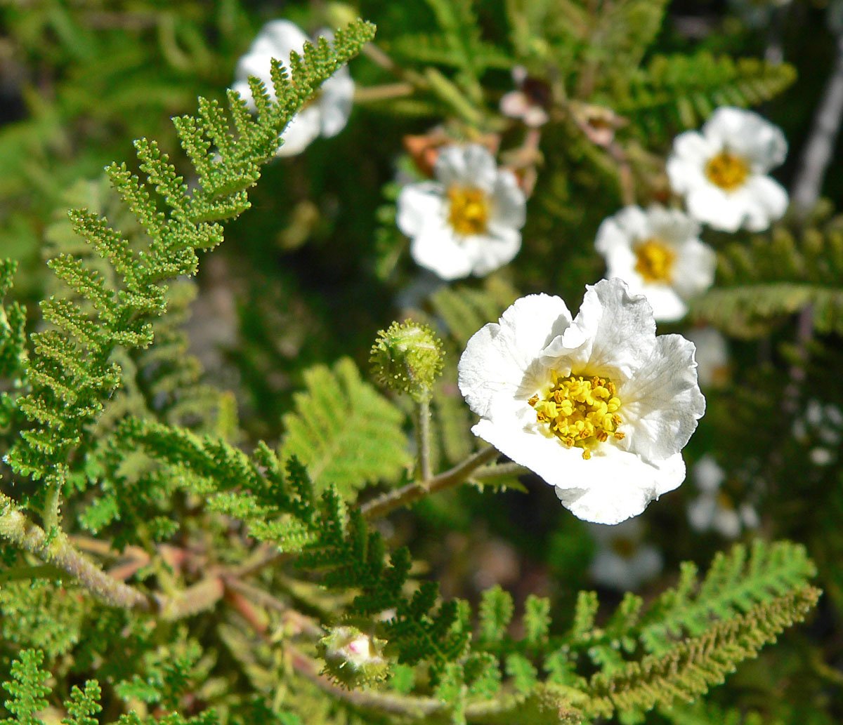 Photo of Chamaebatia australis at the Regional Parks Botanic Garden, Berkeley, California